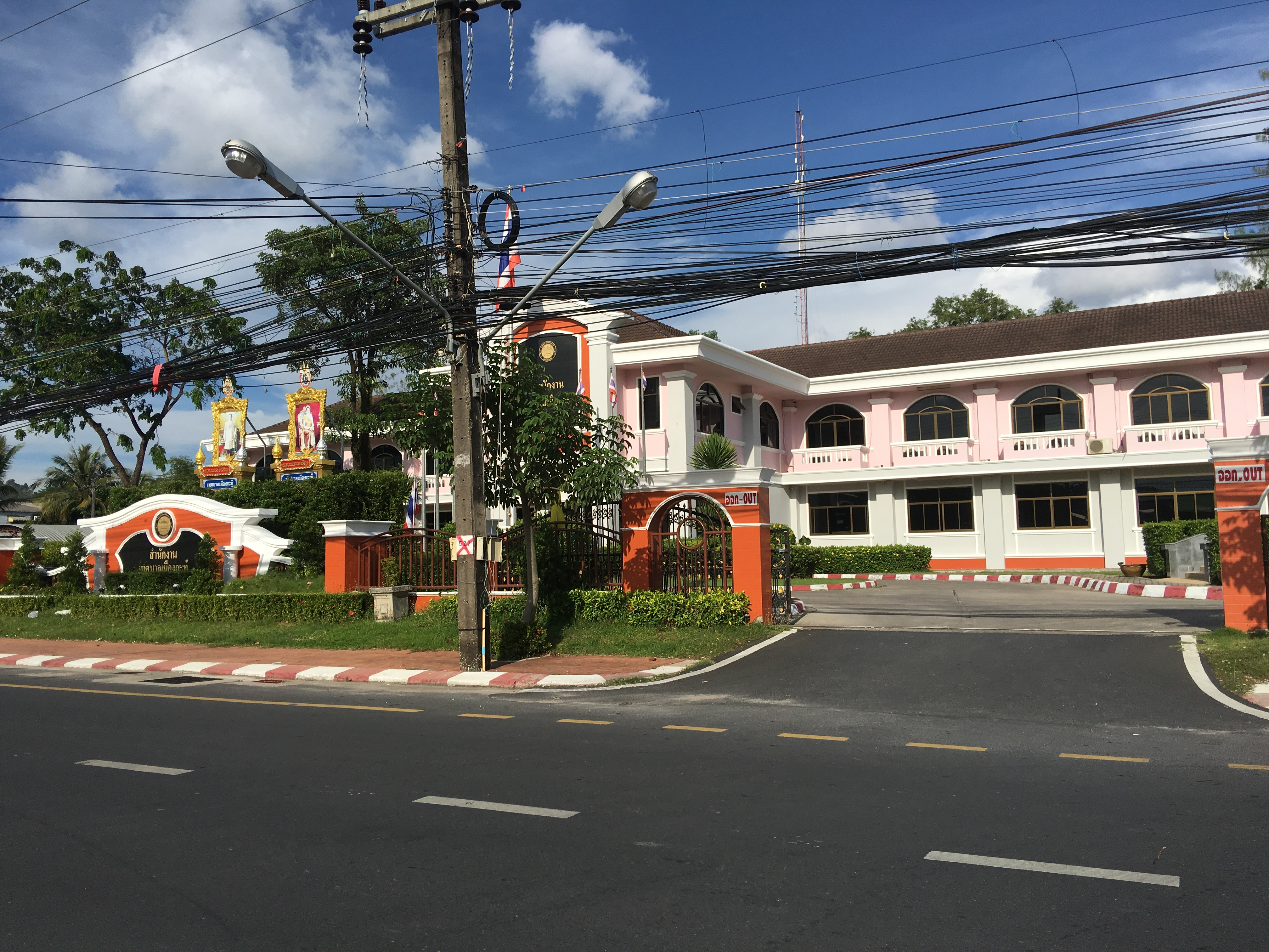 Kathu, Kathu District, Phuket, Thailand